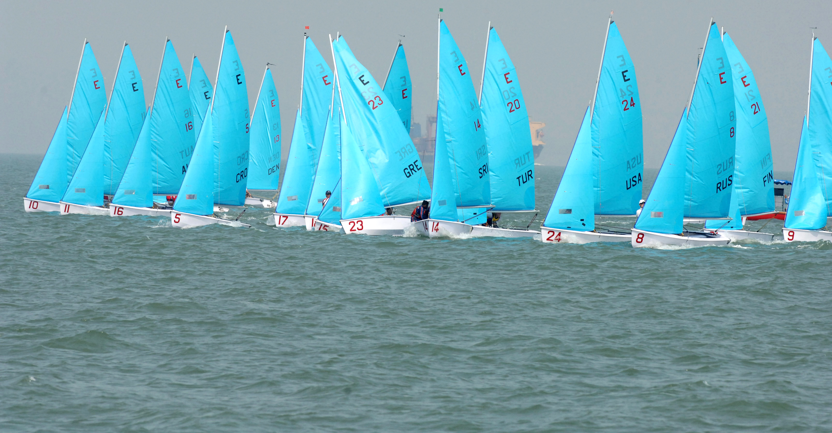 The start of a fleet race at the World Military Games in Mumbai, India.